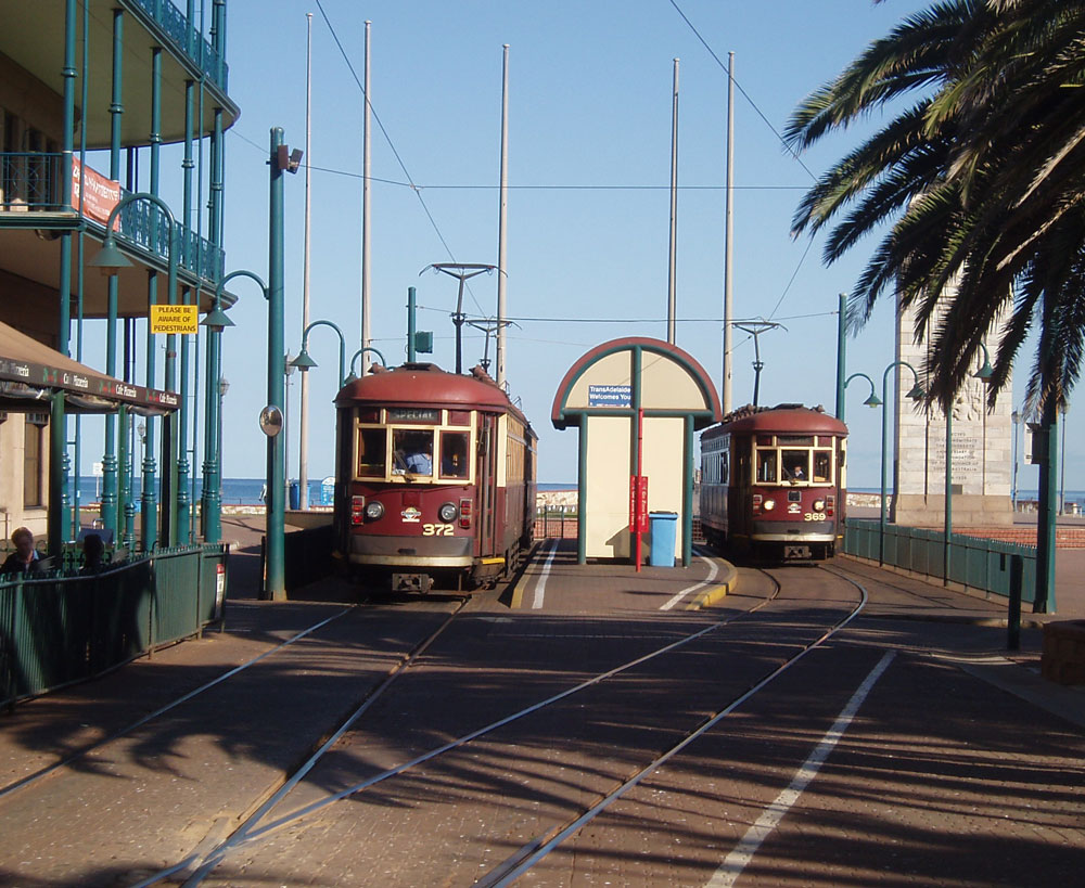 Glenelg Tram at Glenelg, South Australia. 365 & 372 arrive Moseley Sq with 09.15 departure from City. This double set will return to Depot. 369 waits on north side track to work the next City departure at 09.50. 11May05